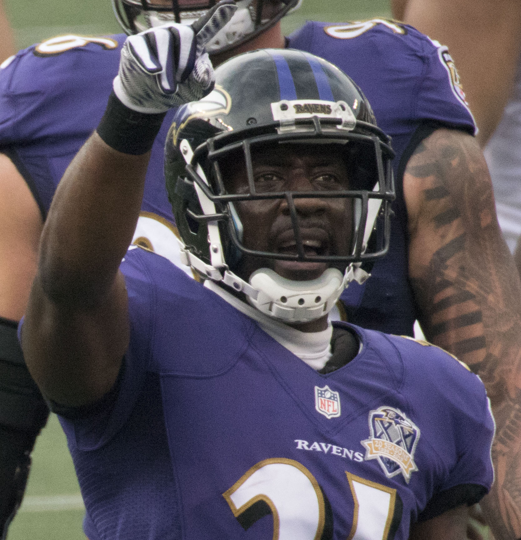 Baltimore Ravens cornerback, Lardarius Webb, playing against the Seattle Seahawks on December 13, 2015.